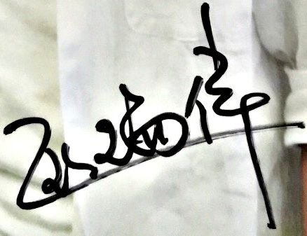 This is Jimmy Au's signature.